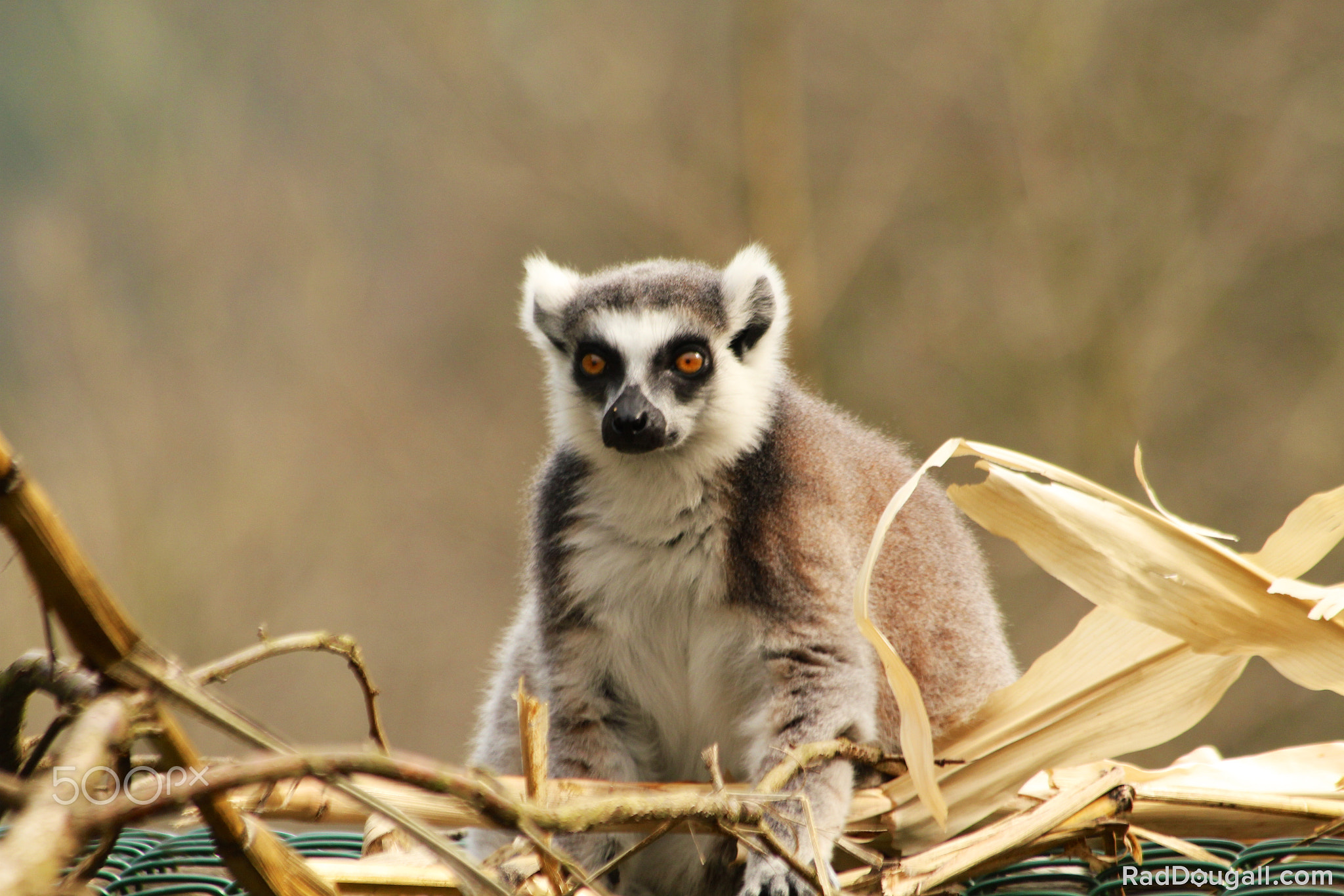 500px provided description: Lenur At Monkey World